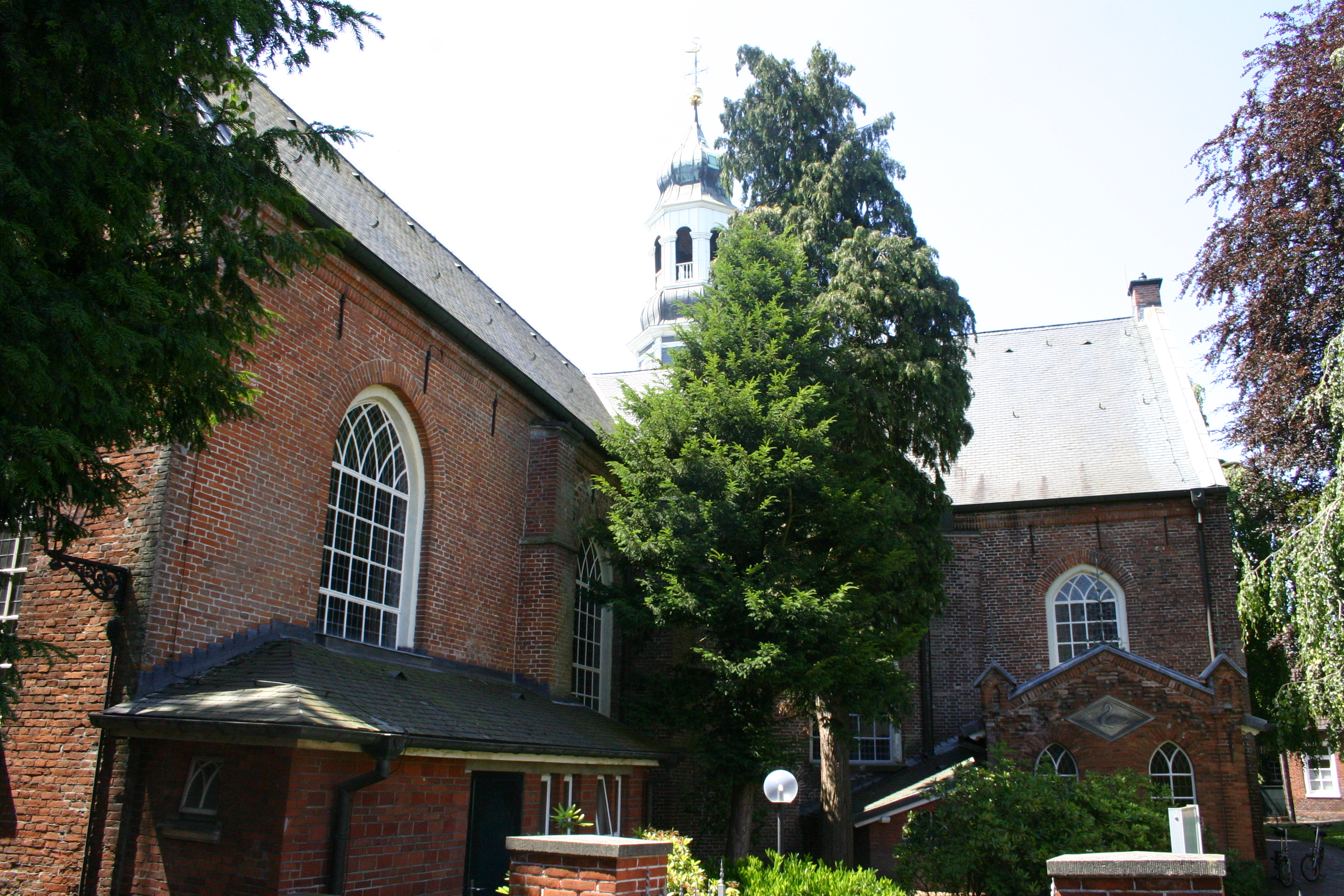 Historic church (luth.) in Leer, East Frisia, Germany